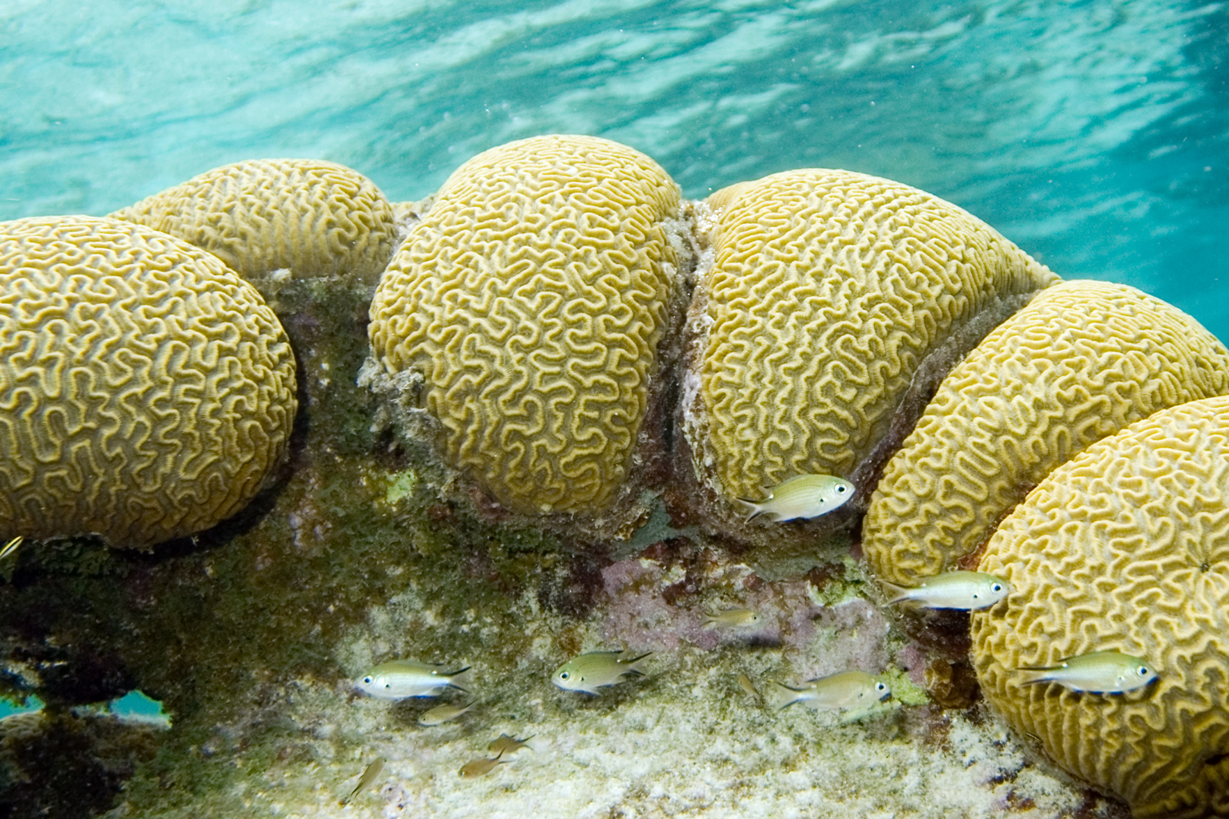 by symmetrical brain coral Diploria strigosa